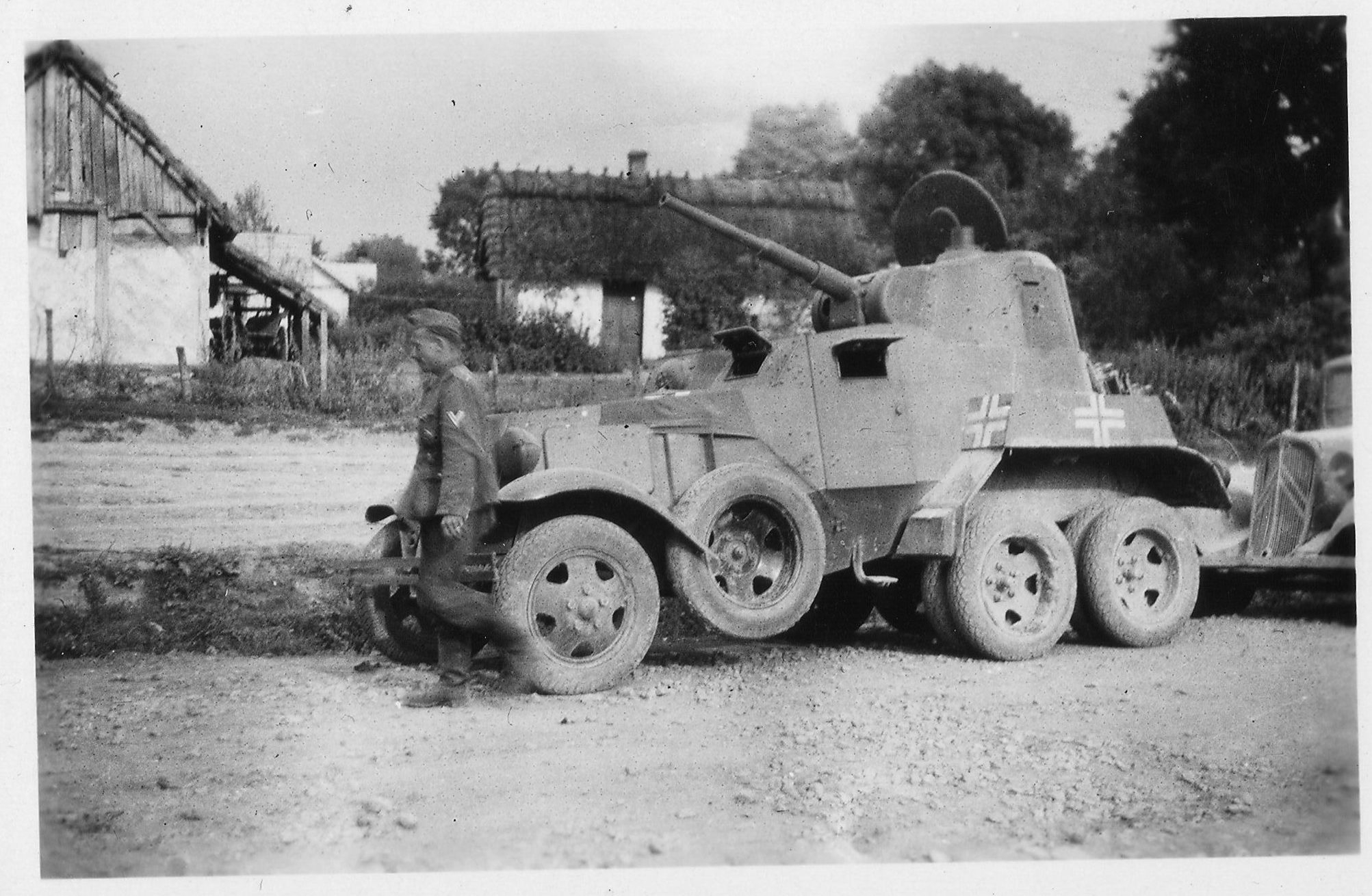 Captured russian armored scout car BA-10